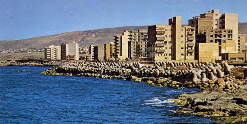 Derna, Libya coastline.